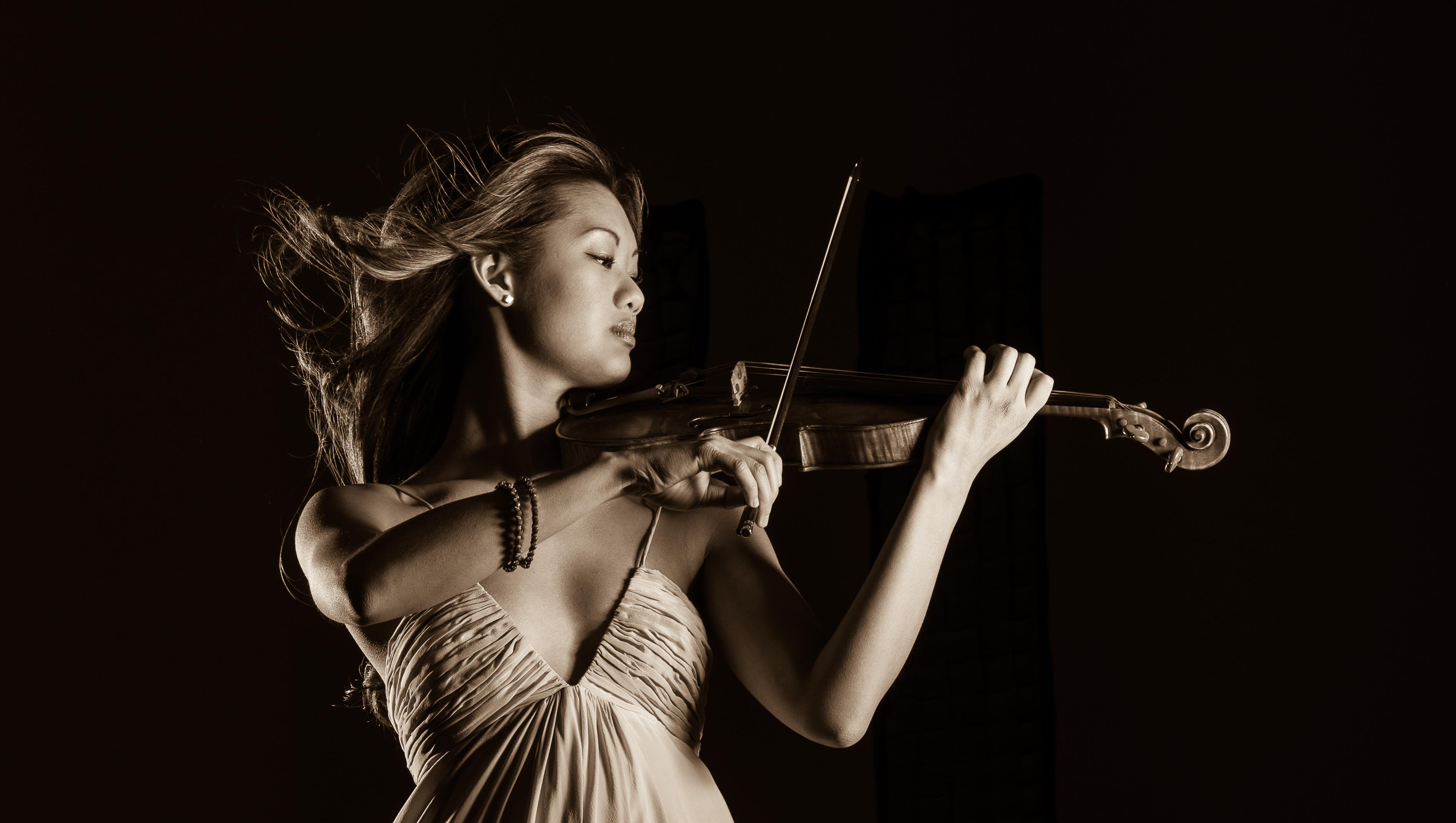 portrait photo of the Norwegian violinist Catharina Chen.